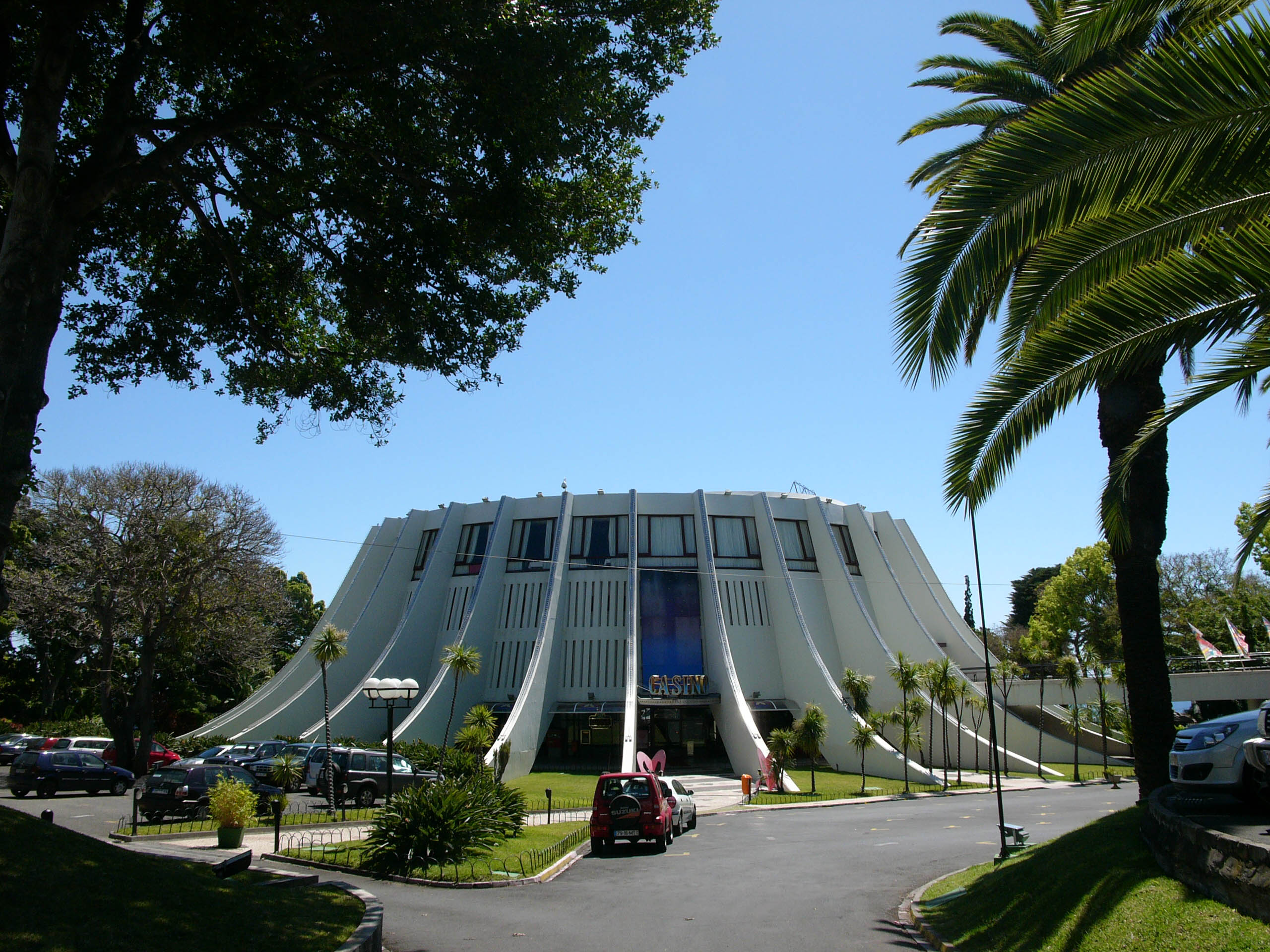 Casino in Funchal, Madeira; Architect Oscar Niemeyer